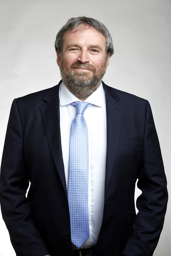 David J. Richardson is a Professor and Deputy Director of the Optoelectronics Research Centre at the University of Southampton Attribution: The Royal Society